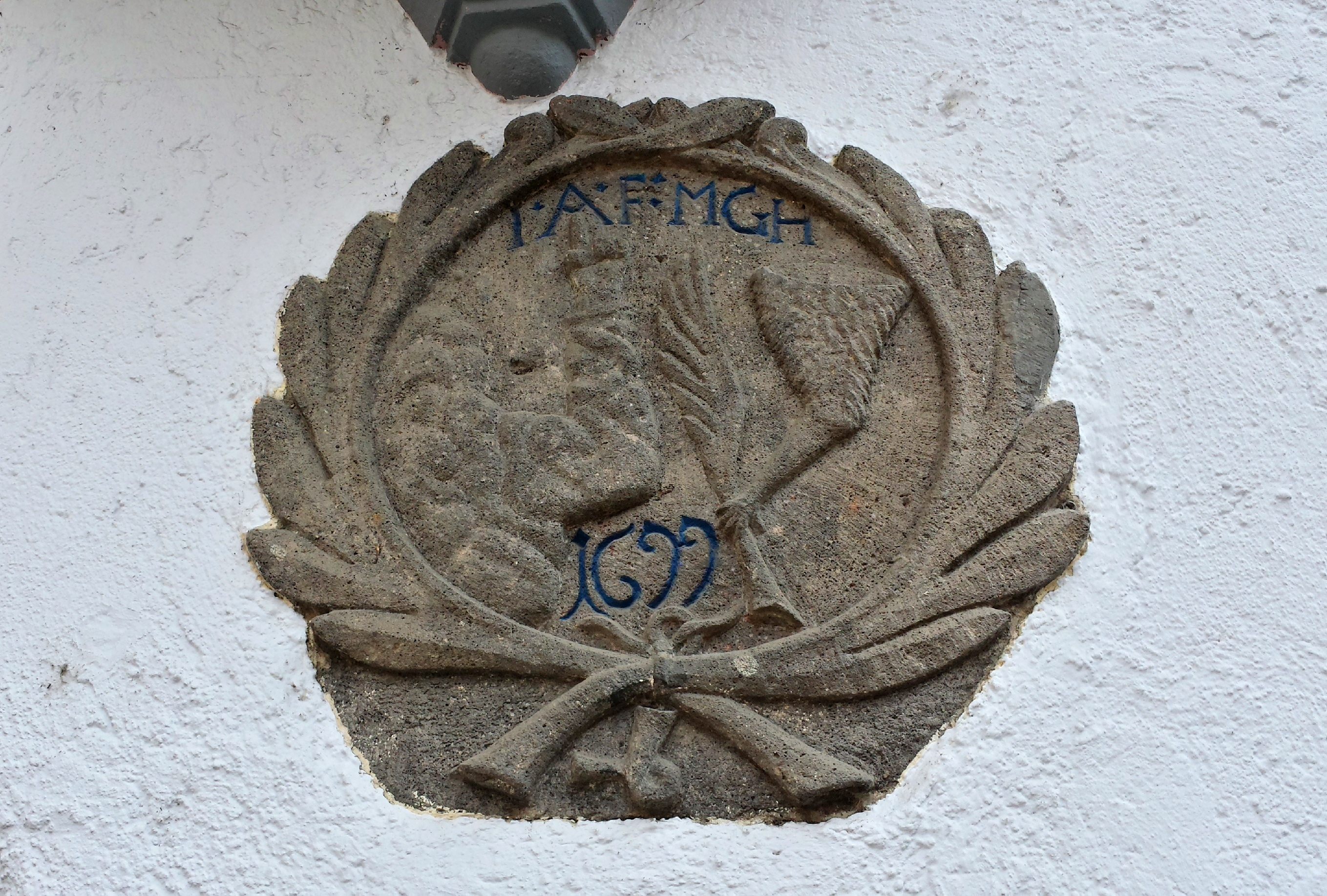 Relief plate with the year 1699 and the initials J. A. F. M. G. H. for Johannes Albertus Finger and Marie Gertrude Hochgürtel at the former Mohrenapotheke in Cochem